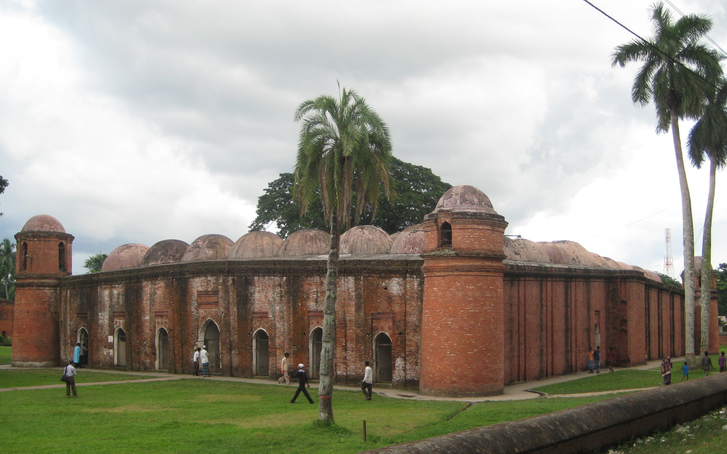 This historic city is located within Bagerhat District in south-west Bangladesh. It was founded by Turkish general Ulugh Khan Jahan in the early 15th century. It is an enormous Moghol architectural site covering a very large area (160 x 108) square feet. The mosque is unique in that, it has sixty pillars, which support eighty one (81) exquisitely curved domes that have worn away with the passage of time. The structure of the building also represents the 15th century Turki architectural view. It is anticipated that, before 1459 a greatest devotee of Islam named Khan Jahan Ali established this mosque. He was also the founder of Bagerhat district.